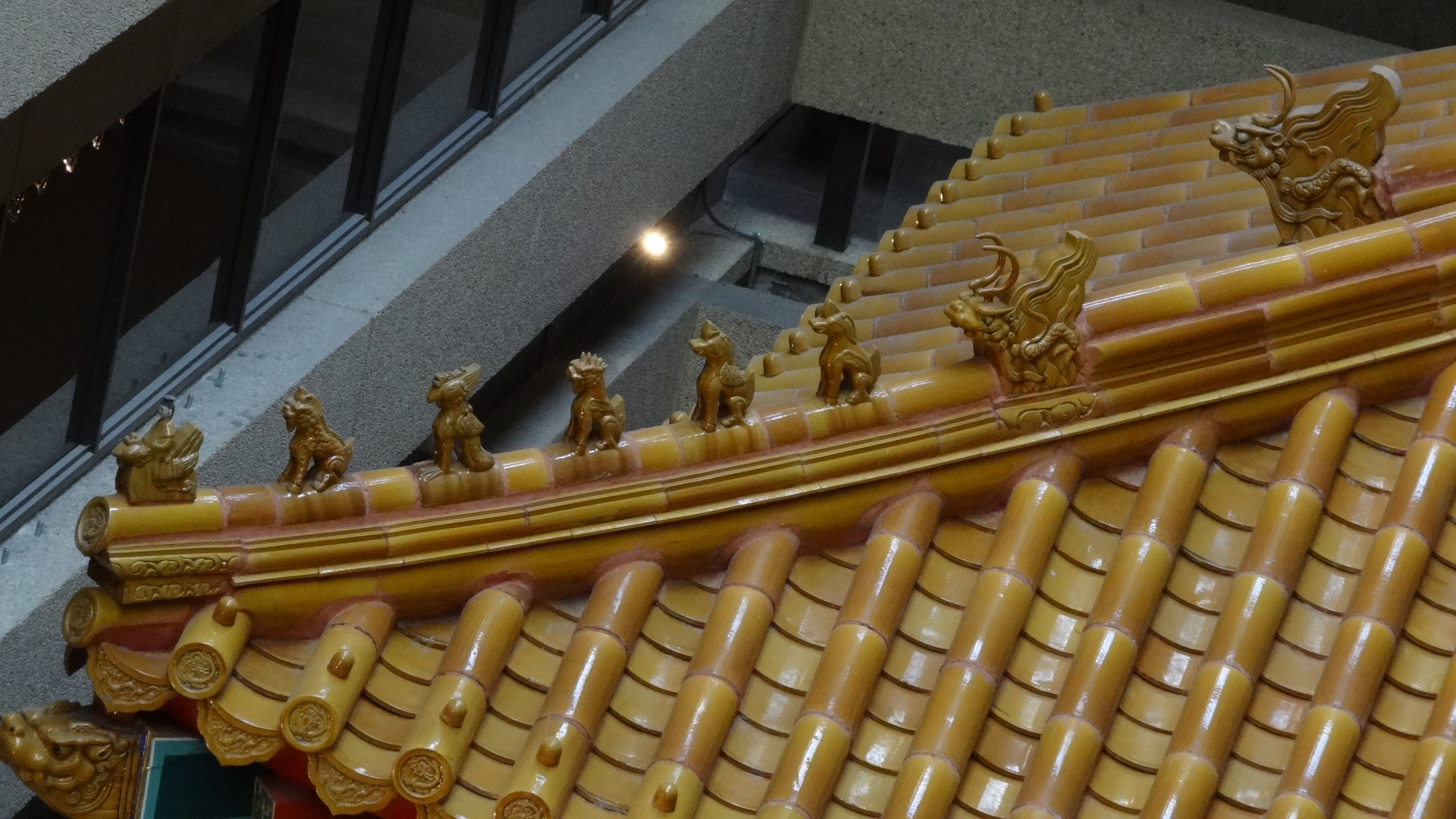 glazed ceramics